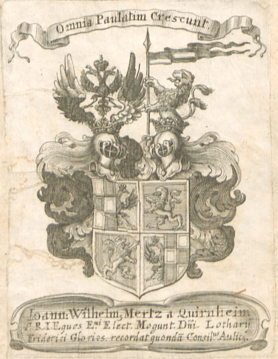 Coat of arms Johann Wilhelm Merz (1685)